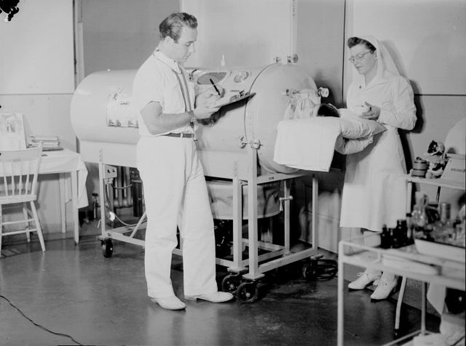 We see the head of a child at the end of an iron lung at the Sainte-Justine Hospital in Montreal. A doctor and a nurse care for the patient and report data.